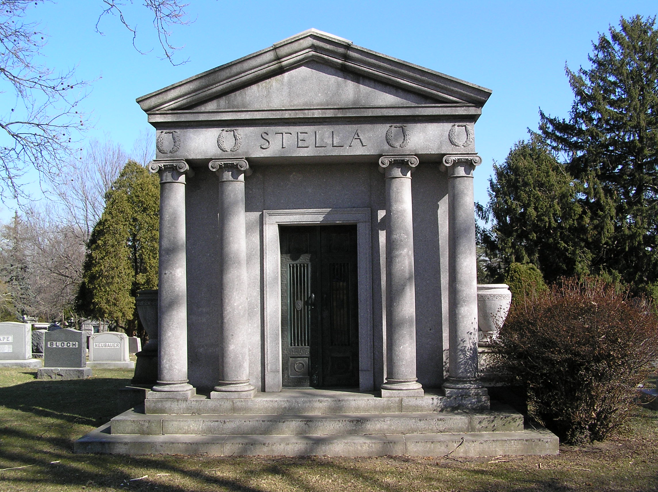 The mausoleum of Joseph Stella in Woodlawn Cemetery, Bronx, NY